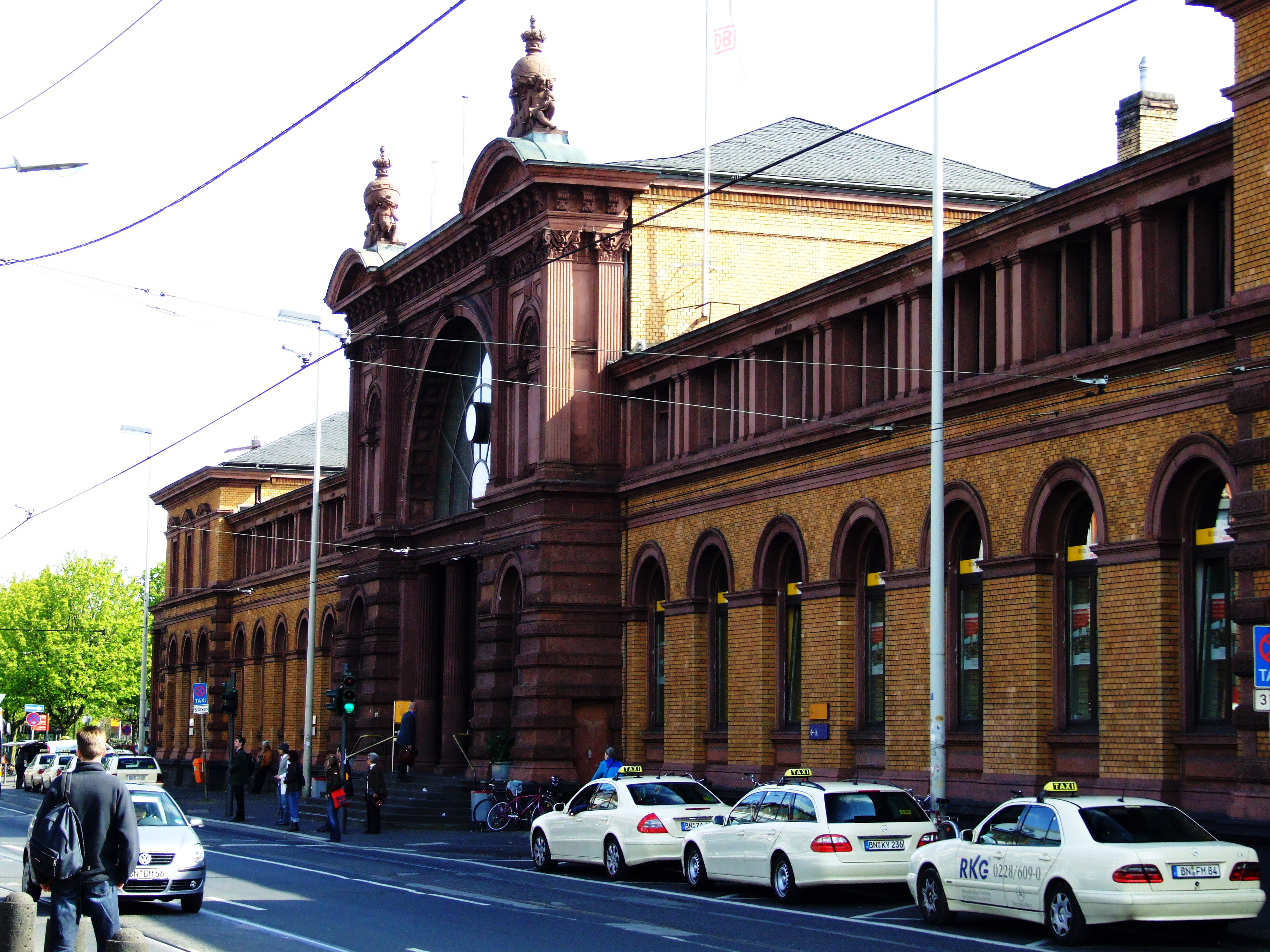 Central station, Bonn